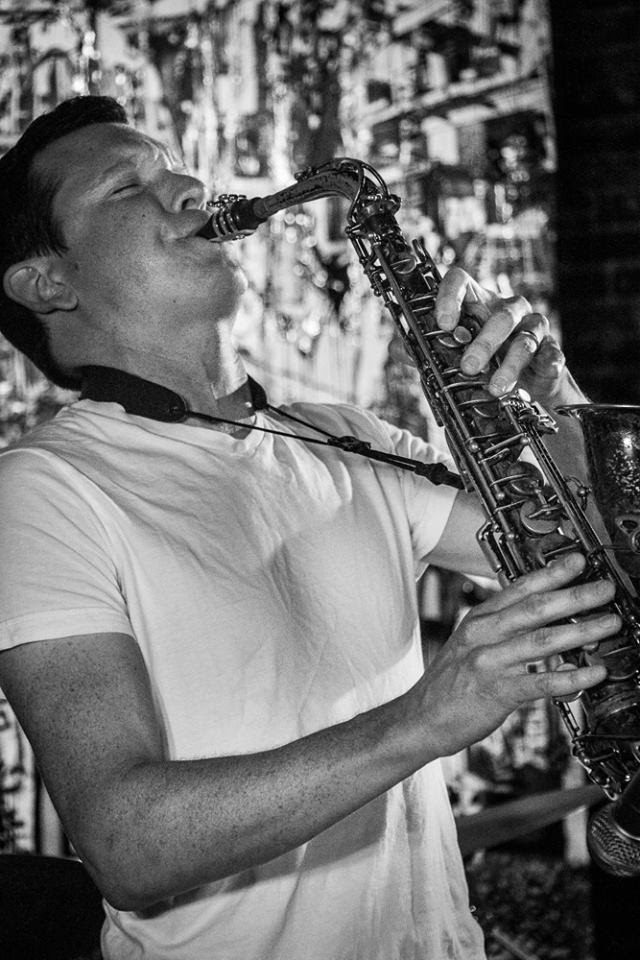 A 2015 photo of saxophonist Gavin Templeton.